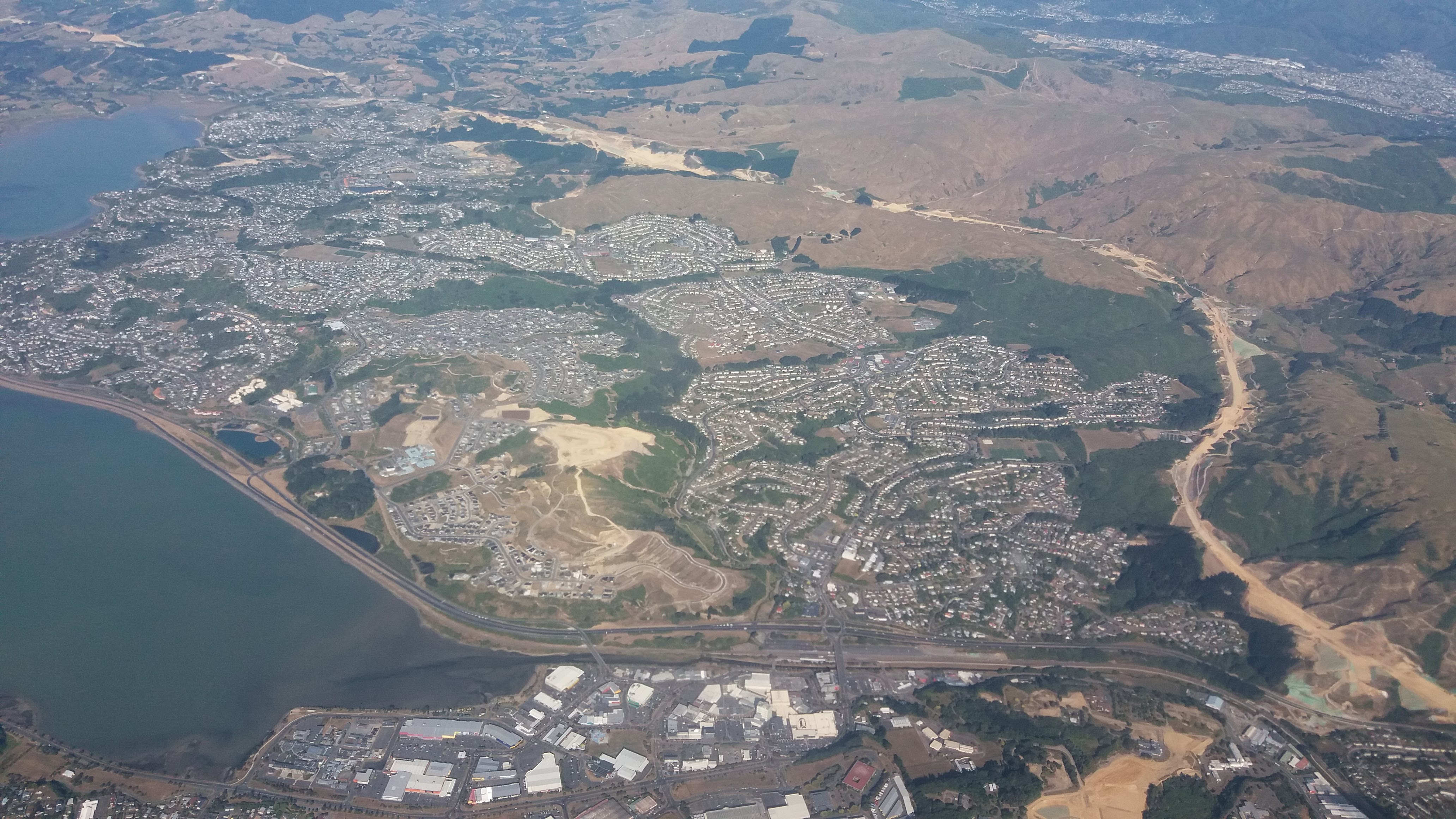 Transmission Gully Motorway construction visible to the east of Porirua December 2017